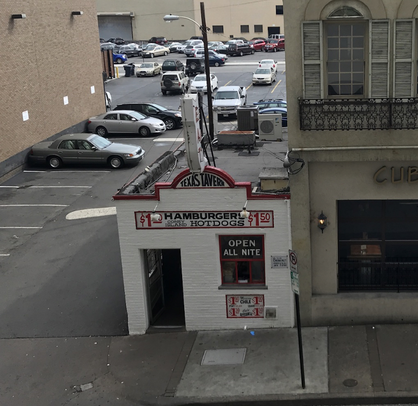 Texas Tavern as viewed from above on Campbell Ave SW in Roanoke, Va., USA.